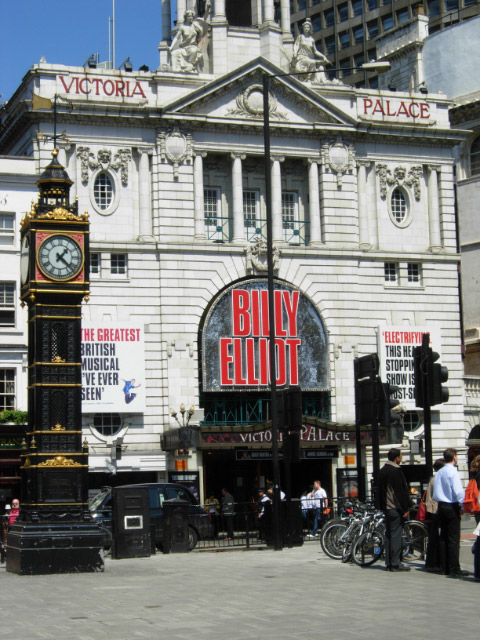 Little Ben and Victoria Palace Theatre Little Ben clock tower stands at the other end of Victoria Street from its much larger and better known namesake, Big Ben. Victoria Palace Theatre is the home of the hugely successful musical 'Billy Elliot', which tells the story of a working-class boy from Co. Durham who has aspirations to become a ballet dancer.